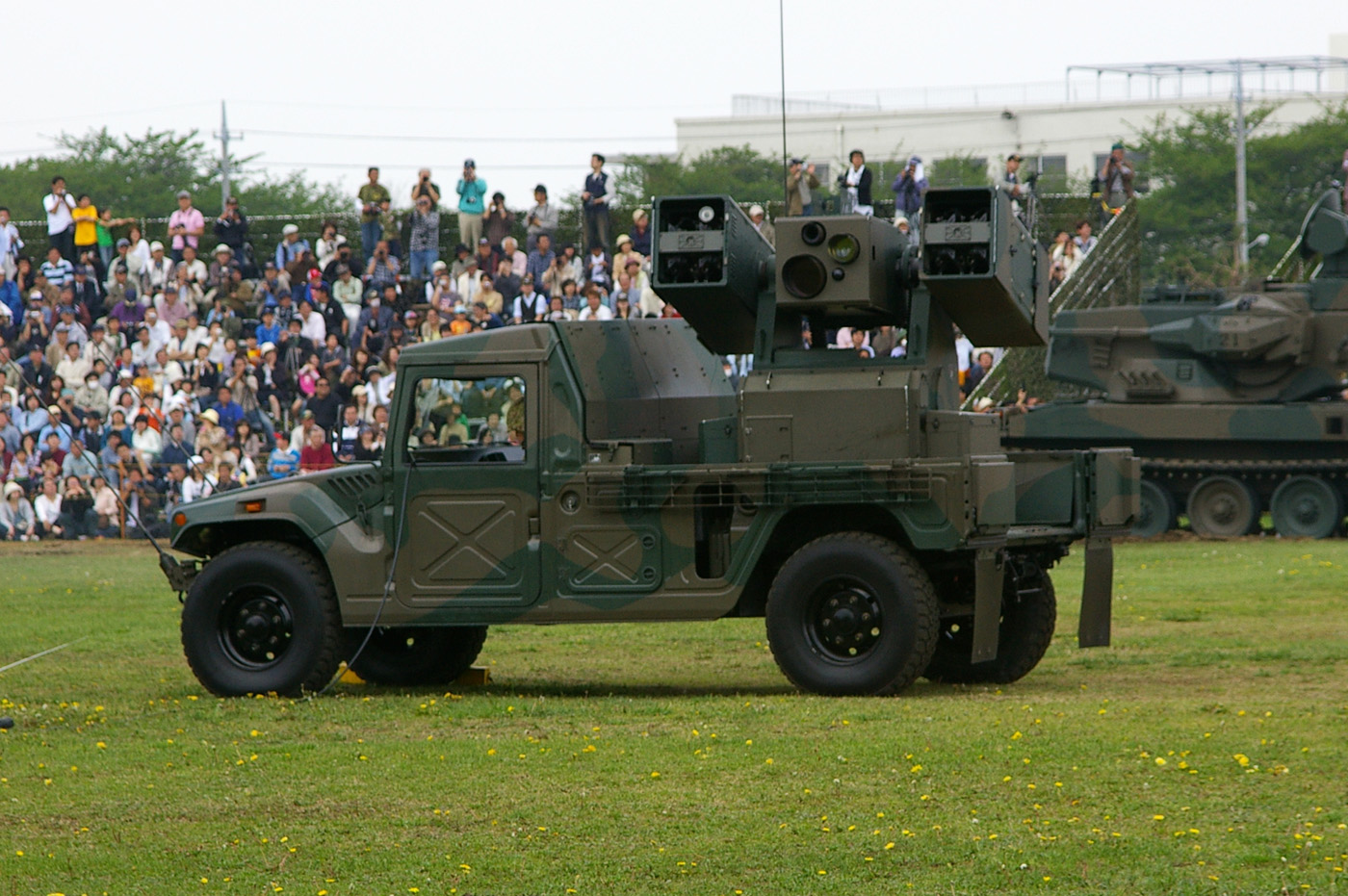 Taken by Los688,29-Apr-2008,JGSDF Camp-Shimoshizu.JGSDF Type 93 Surface-to-air missile,Air Defence Artillery School unit. ja:2008年4月29日、投稿者撮影。陸上自衛隊下志津駐屯地記念行事。93式近距離地対空誘導弾、高射教導隊。